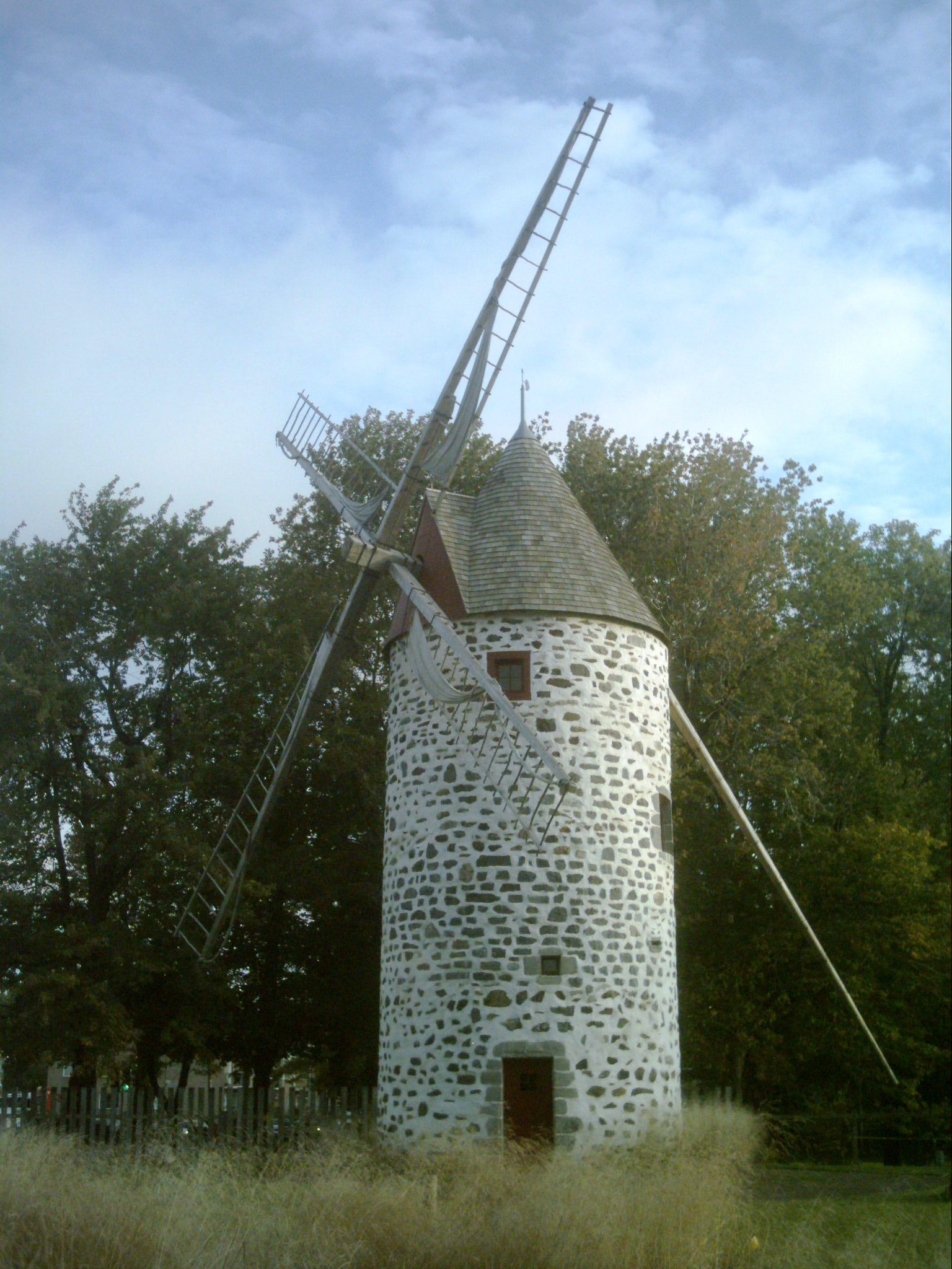 Windmill, Pointe-aux-Trembles, Montreal, Qc